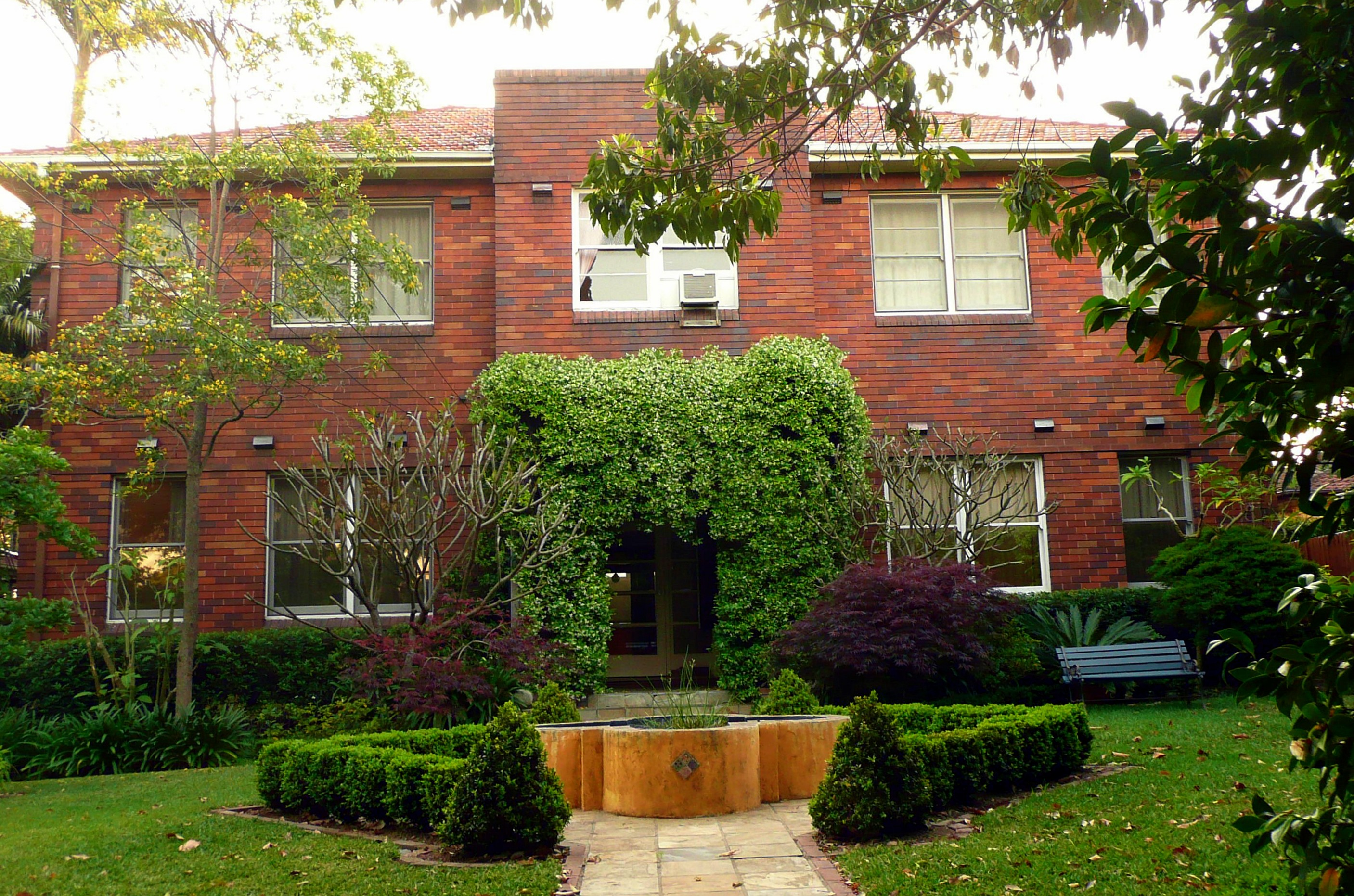 Siddha Yoga Ashram, Sydney (this image has been altered to eliminate tilt and increase sharpness, by User:Sardaka, 2014-1-24)